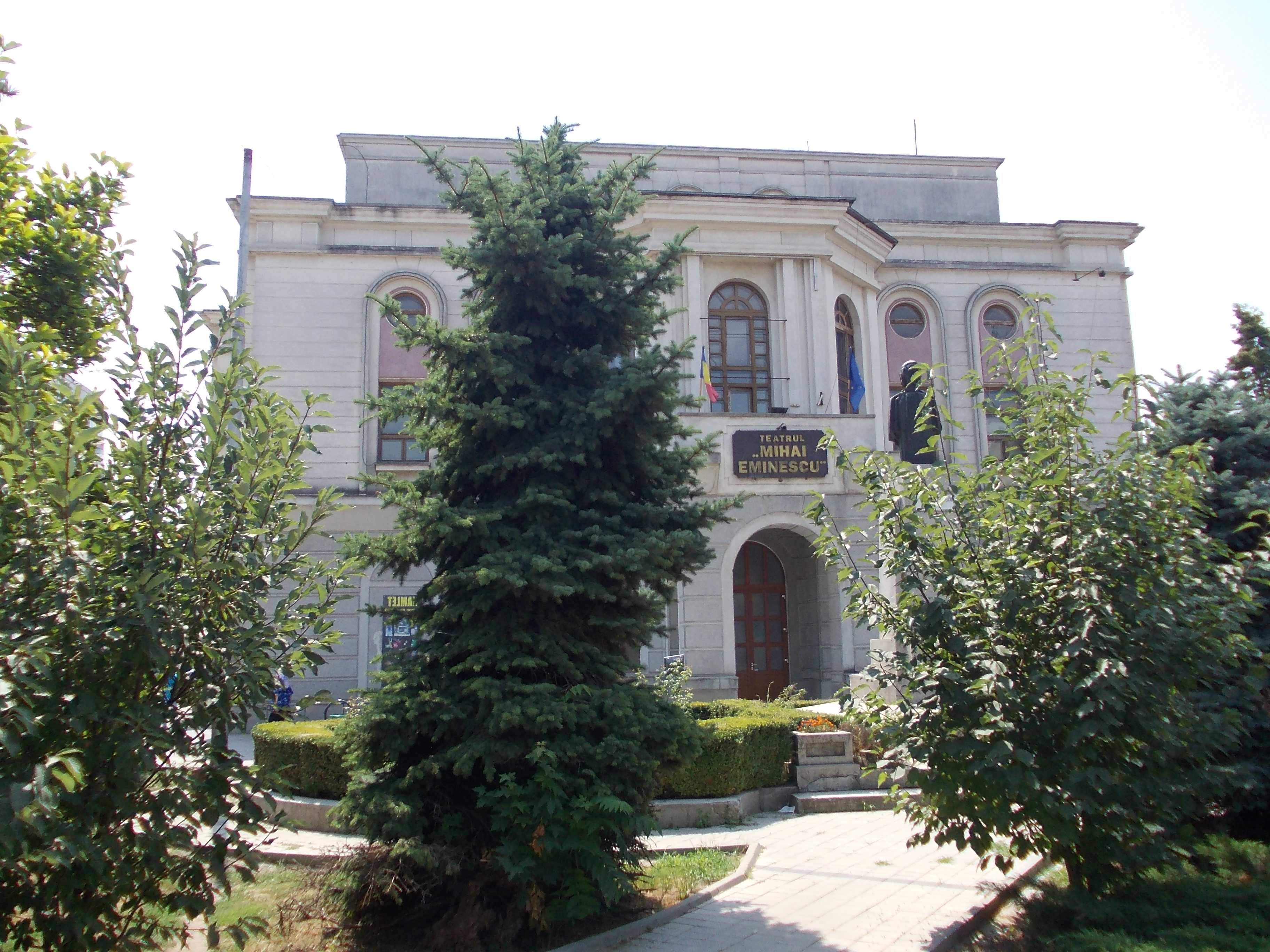 Teatrul Mihai Eminescu din Botoşani